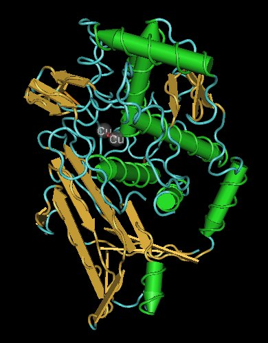 Rendering of the molecular structure of a functional unit of octopus hemocyanin. From en:, created by User:BerserkerBen. Original text: Image I generated from .cn3 file upload from public access at